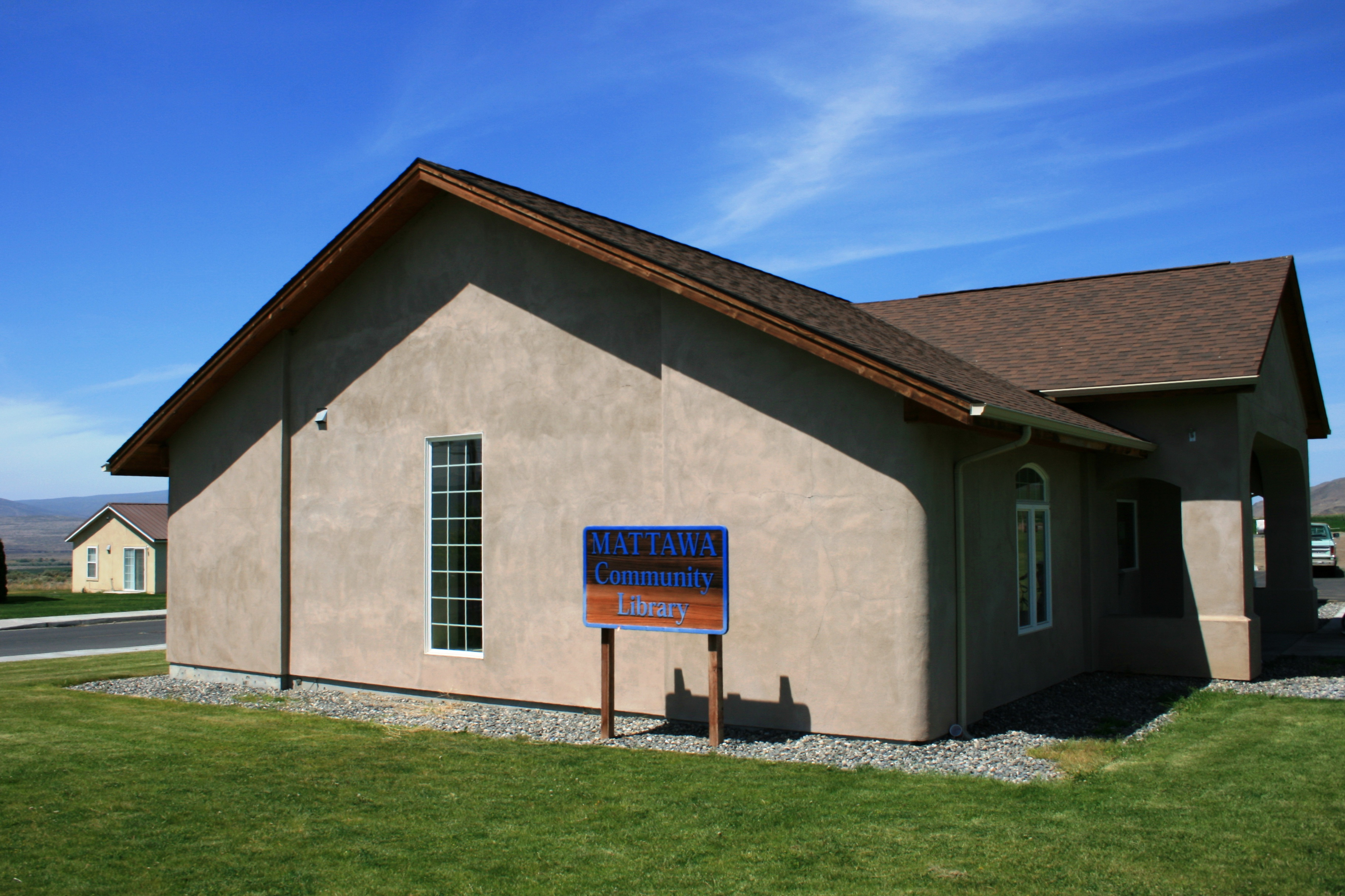 Example of Straw-bale construction seen in the public library of Mattawa, Washington.